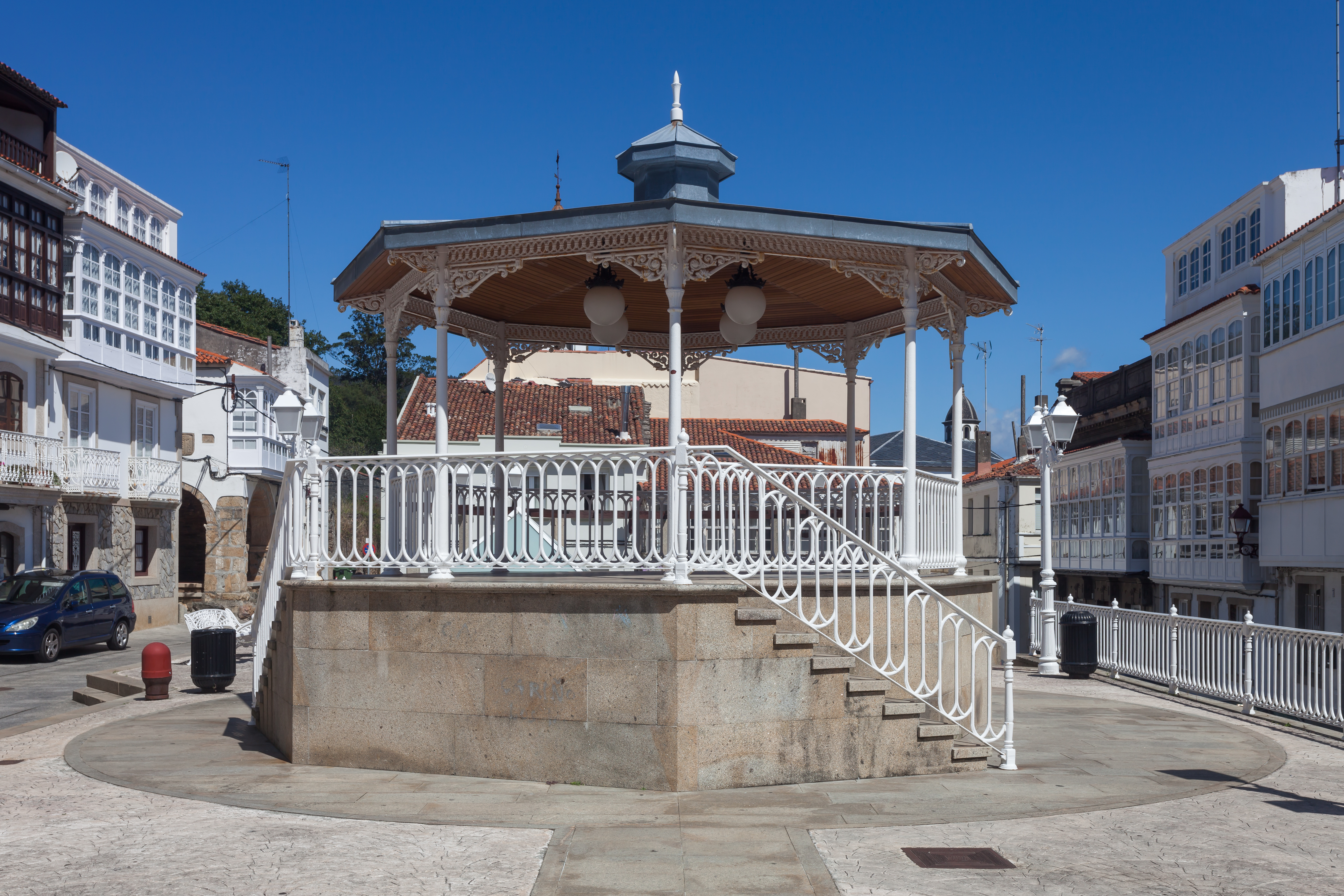 Bandstand in Cedeira, Galicia (Spain).